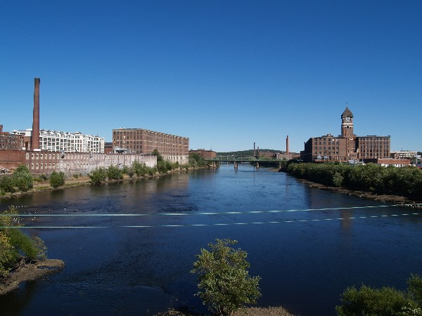 Merrimack River at Lawrence